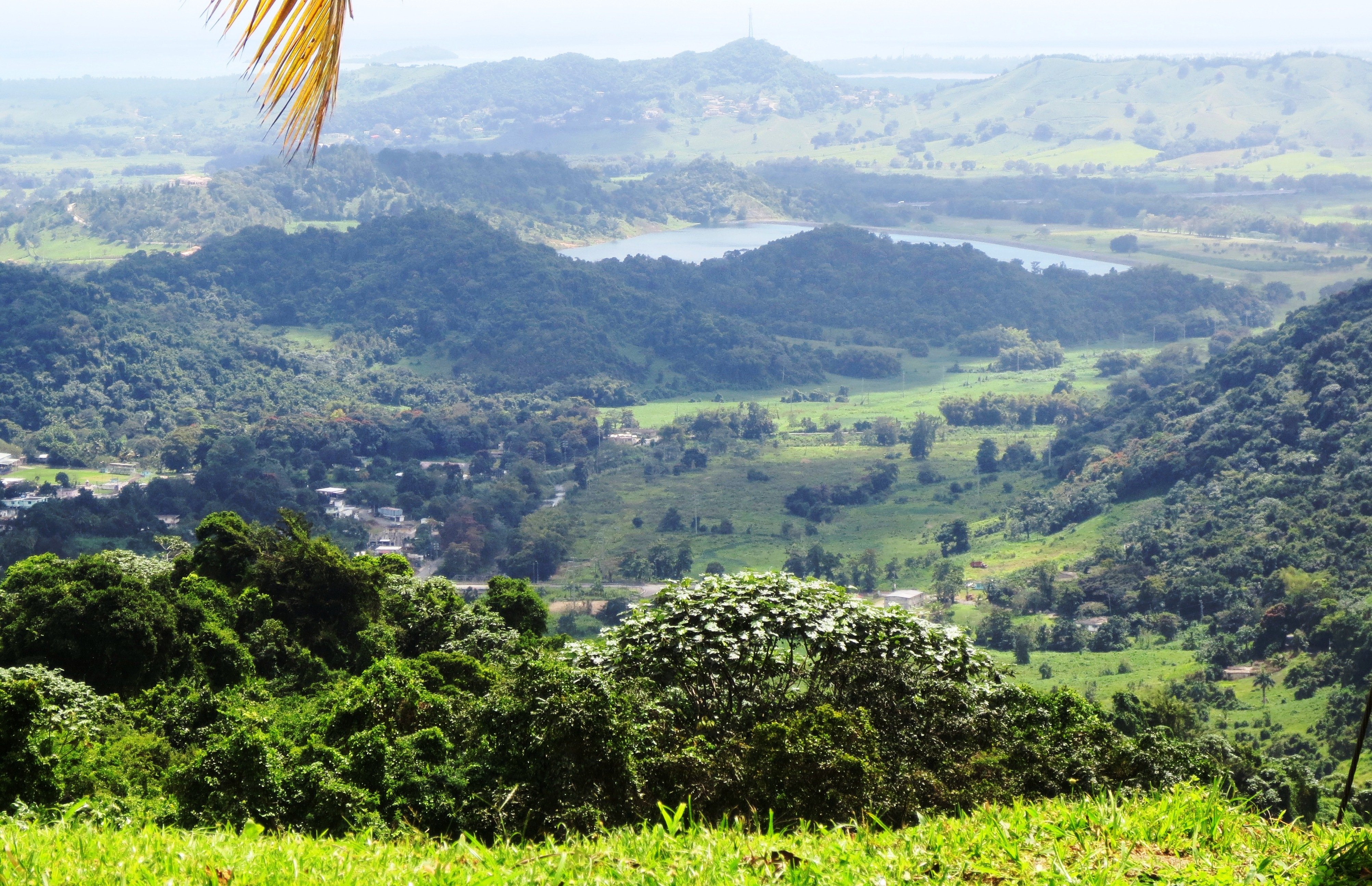 The Rio Blanco offstream reservoir, a medium-size earthfill embankment dam constructed around 2006 for water Storage and drainage purposes.